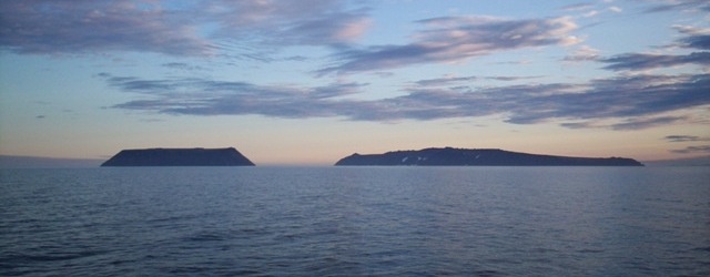 Diomede Islands: Little Diomede Island or Kruzenstern Island (left) and Big Diomede Island or Ratmanov Island in the Bering Sea. Photo is from the north.